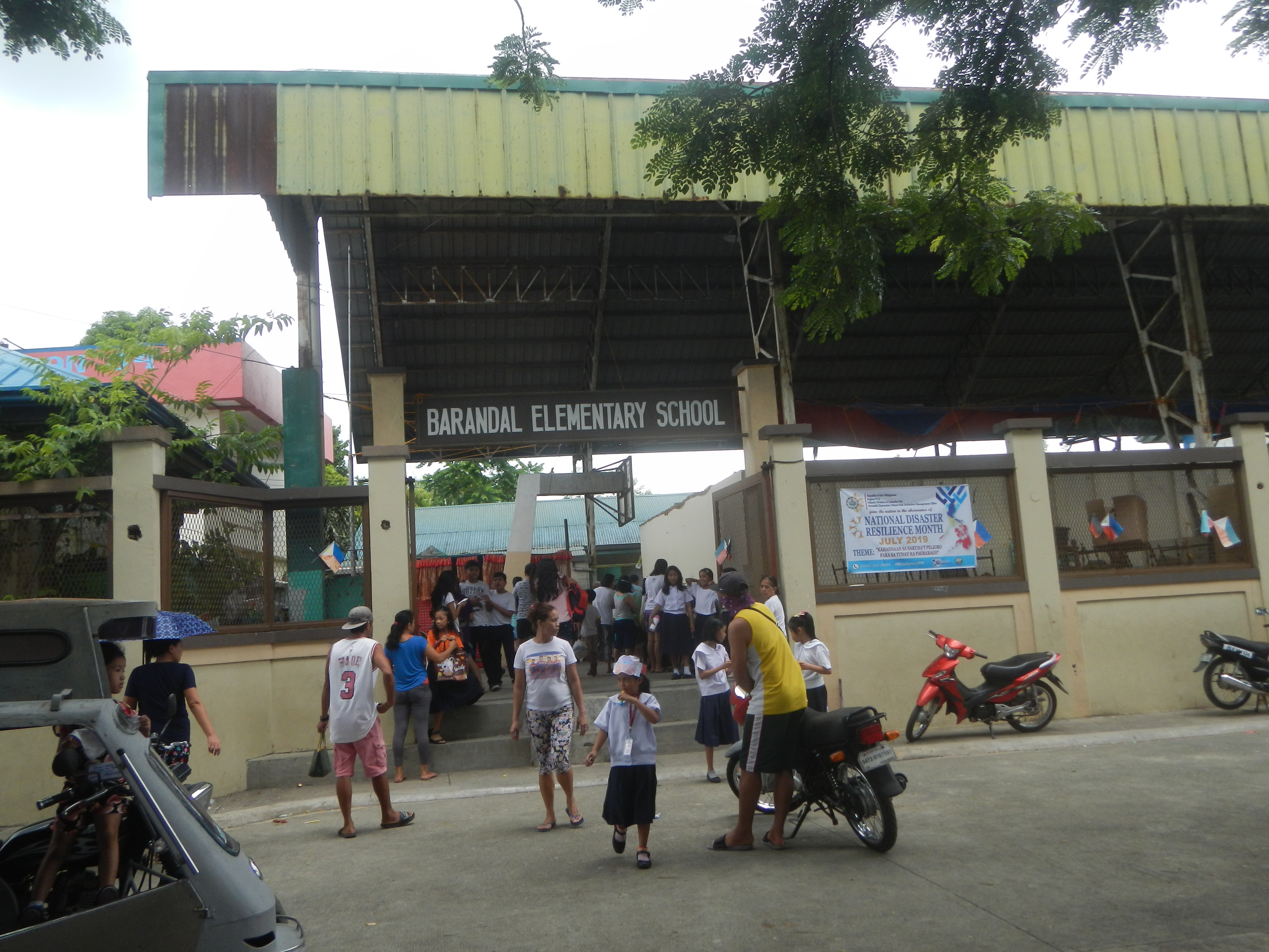 Calamba Premiere International Park List of barangays in Laguna (province) Category:Barangays of Calamba, Laguna Barangays Batino Batino 14°12'12"N 121°7'56"E Barandal 14°11'17"N 121°7'49"E BarandalBarandal Prinza, Calamba City 14.2020, 121.1393 Calamba, Laguna from Mayapa accessed from South Luzon Expressway to National Highway (Calamba Poblacion-Mayapa) of Maharlika Highway (Calamba City section) Pan-Philippine Highway Philippine highway network (Note: Judge Florentino Floro, the owner, to repeat, Donor Florentino Floro of all these photos hereby donate gratuitously, freely and unconditionally Judge Floro all these photos to and for Wikimedia Commons, exclusively, for public use of the public domain, and again without any condition whatsoever).